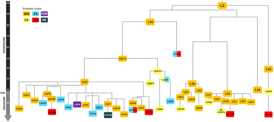 Schematic phylogeny of mtDNA haplogroup L2, based on ML (maximum likelihood) age estimates. Colour scheme corresponding to the probable origin of each clade (WA – Western Africa, CA – Central Africa, EA – Eastern Africa, SA – Southern Africa, EUR – Europe, NE – Near East/Arabian Peninsula), new branch labels proposed in the present study are underlined. LGM: African Late Glacial Maximum at ~18–16 ka, later on than the northern hemisphere one at ~22–19 ka.